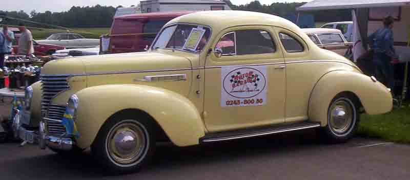 De Soto Series S-6 Coupé 1939